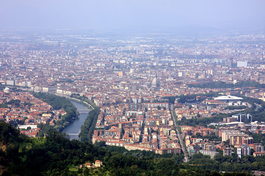 Cityscape of Turin from Superga